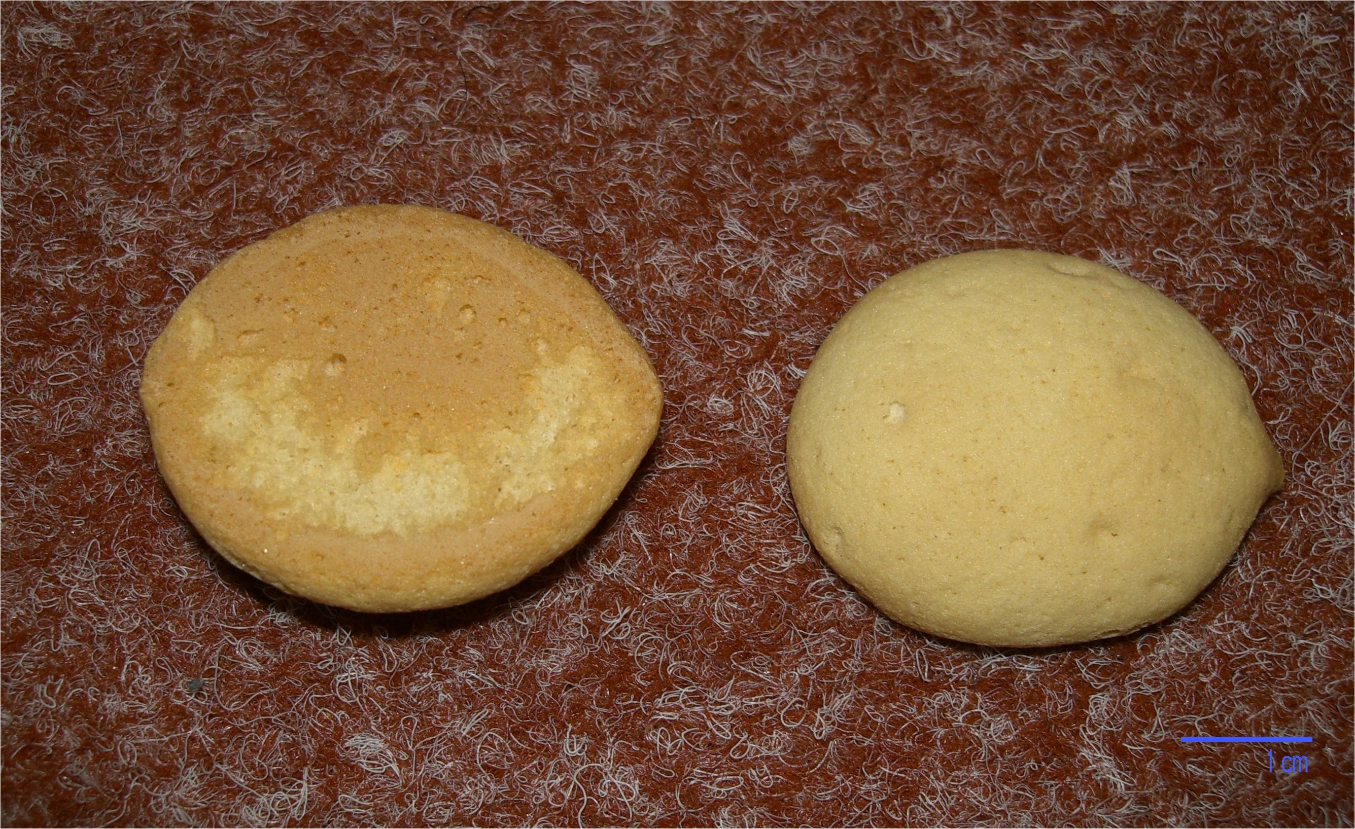 Czech kind of sponge cake.